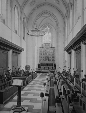 Source: State Library of Western Australia Archives